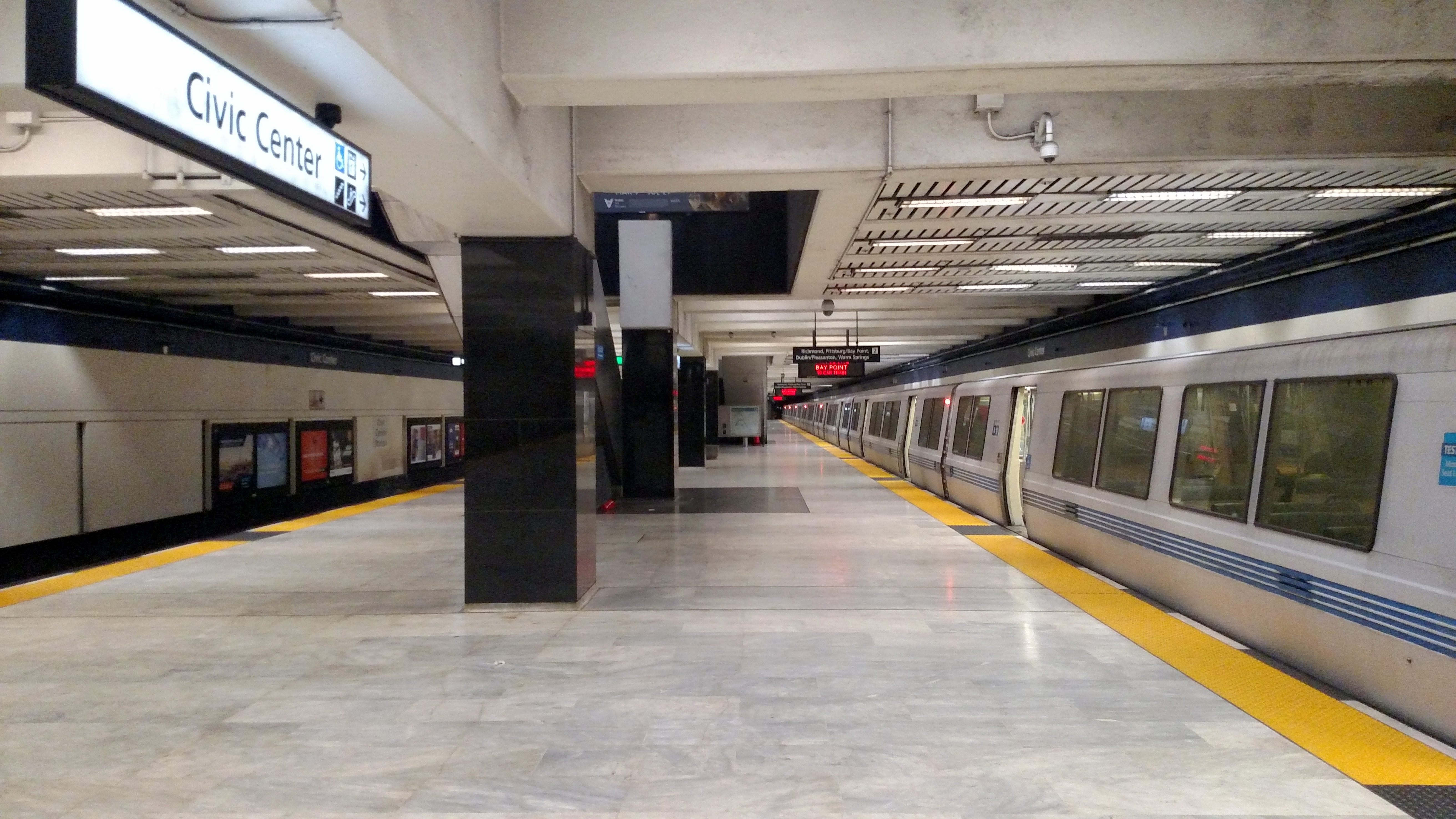 BART train at Civic Center station in May 2018